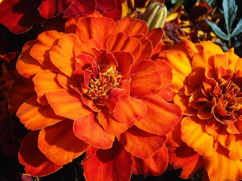 Mexican marigold, also called Aztec marigold (Tagetes erecta) in Kew Gardens, London, England.